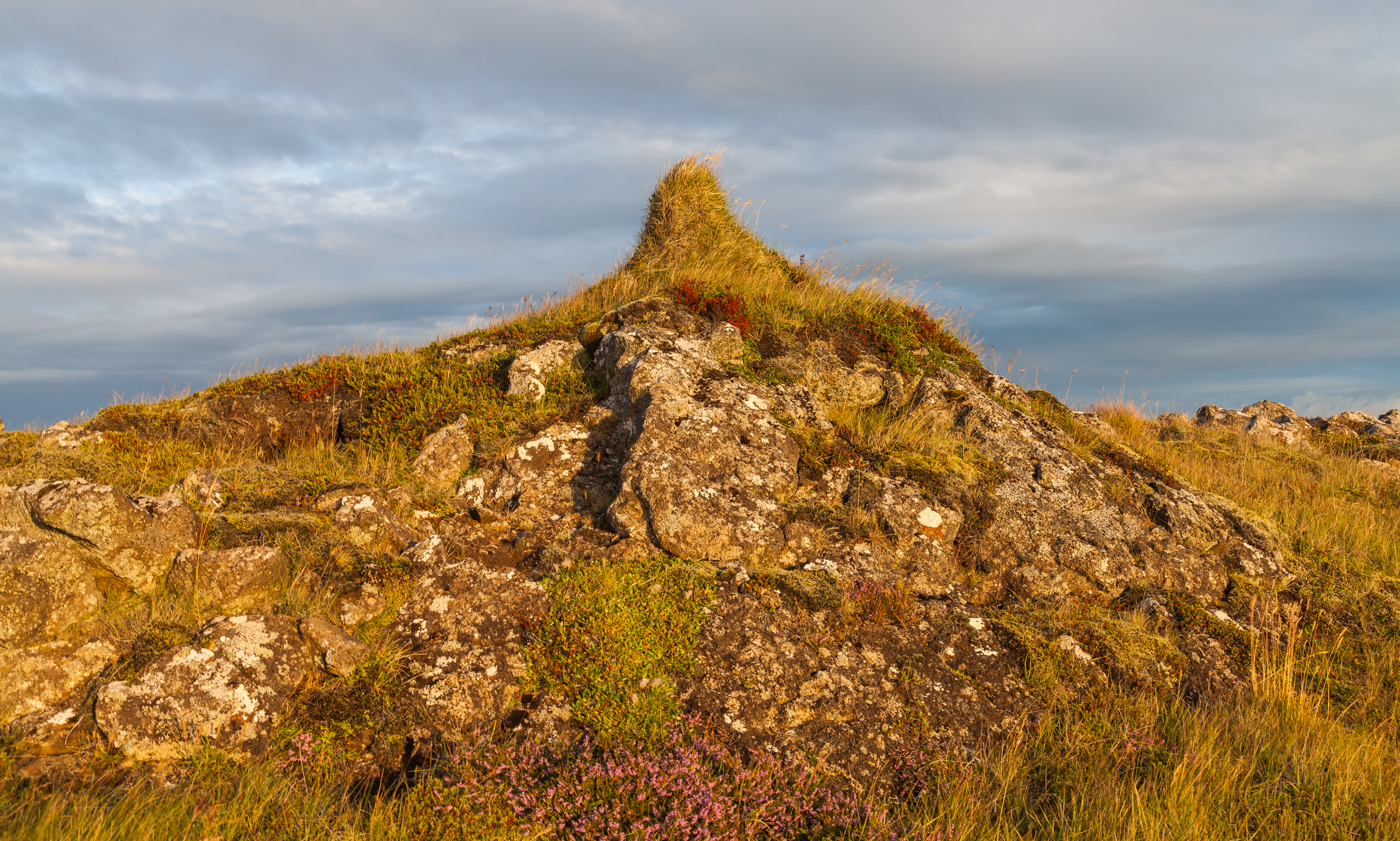 Late evenig landscape in Suðurnes, Iceland